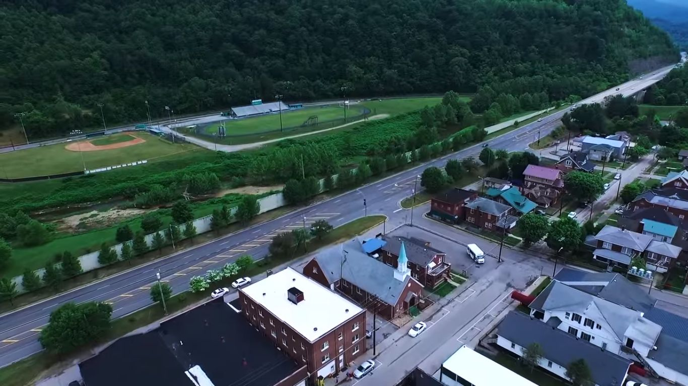 Overlooking the Harlan Flood Wall, Harlan High School Athletic Fields and Highway 421.